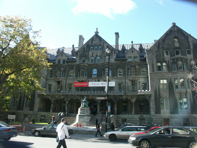 Strathcona music building of McGill University, Montreal. Photo by: user:gene.arboit